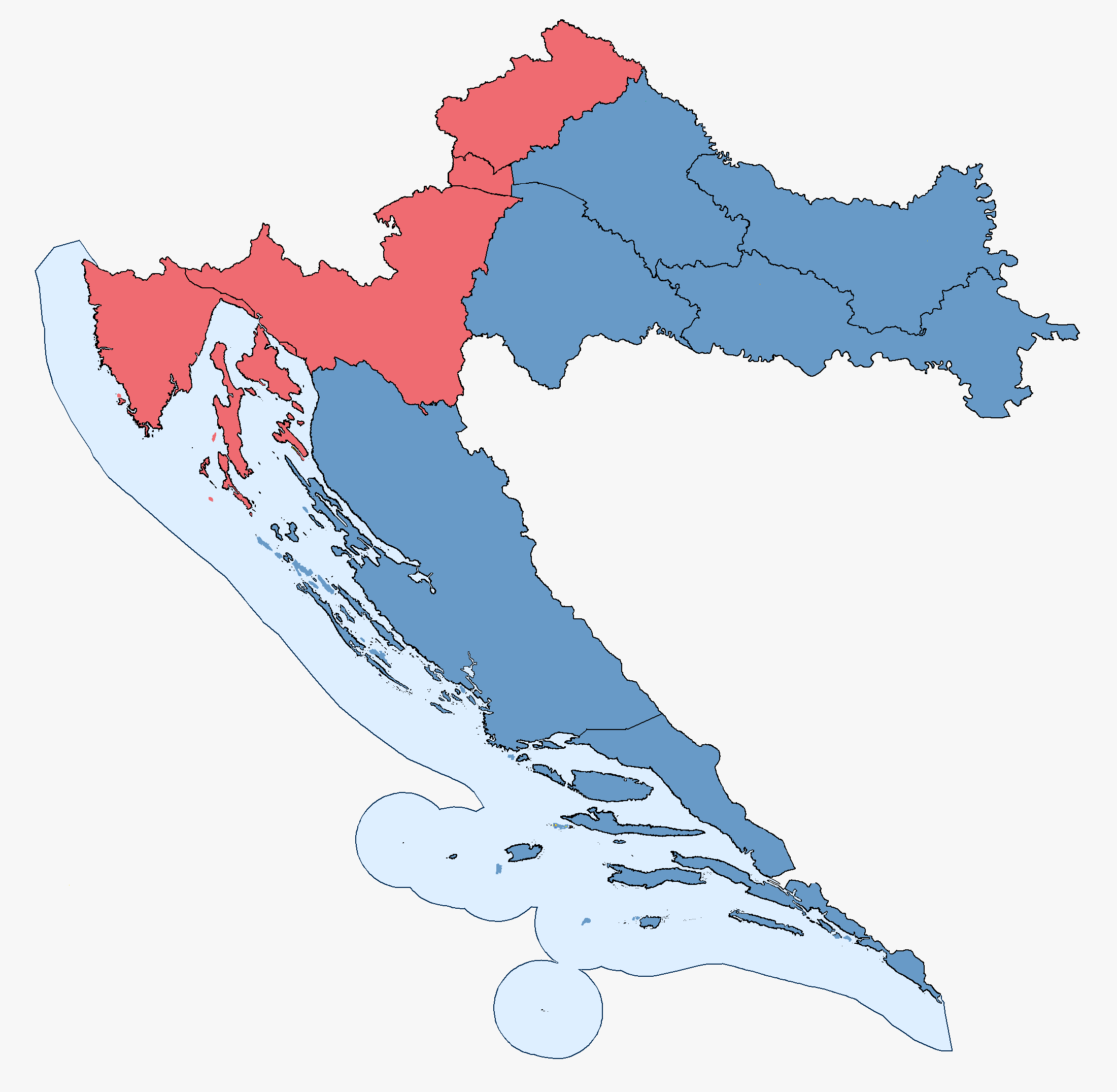 2016 election results for the Croatian Parliament, based on the majority of votes in each electoral district of Croatia.